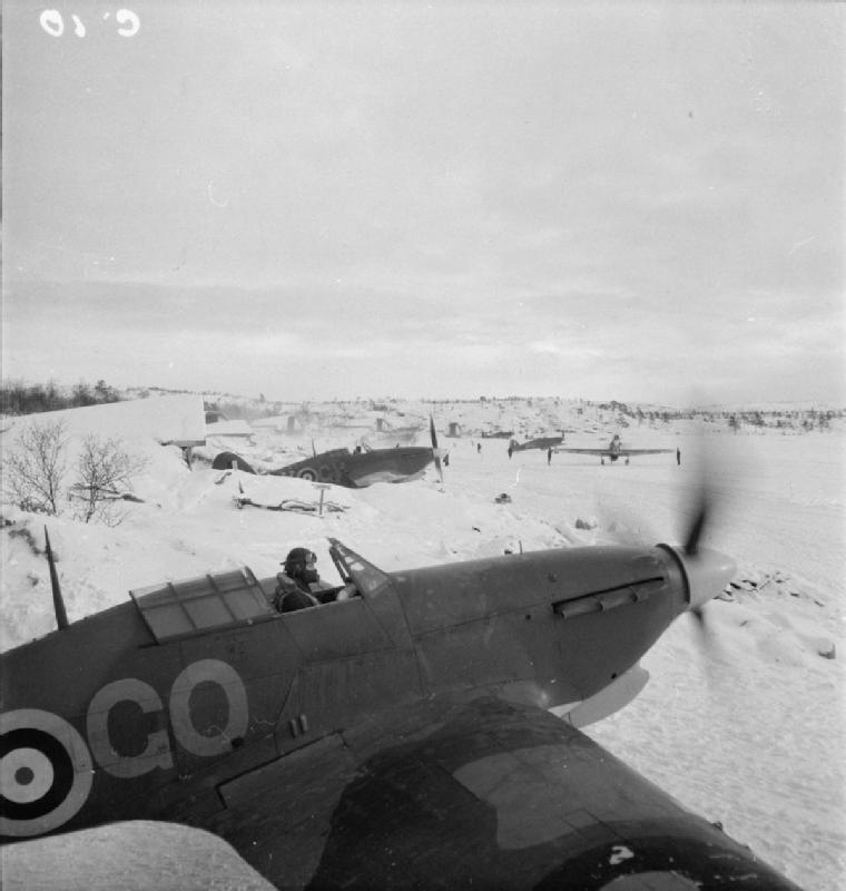 No. 151 Wing Royal Air Force Operations in Russia, September-november 1941 Hawker Hurricane Mark IIBs of No. 134 Squadron RAF, scramble from their dispersals in the snow at Vaenga.